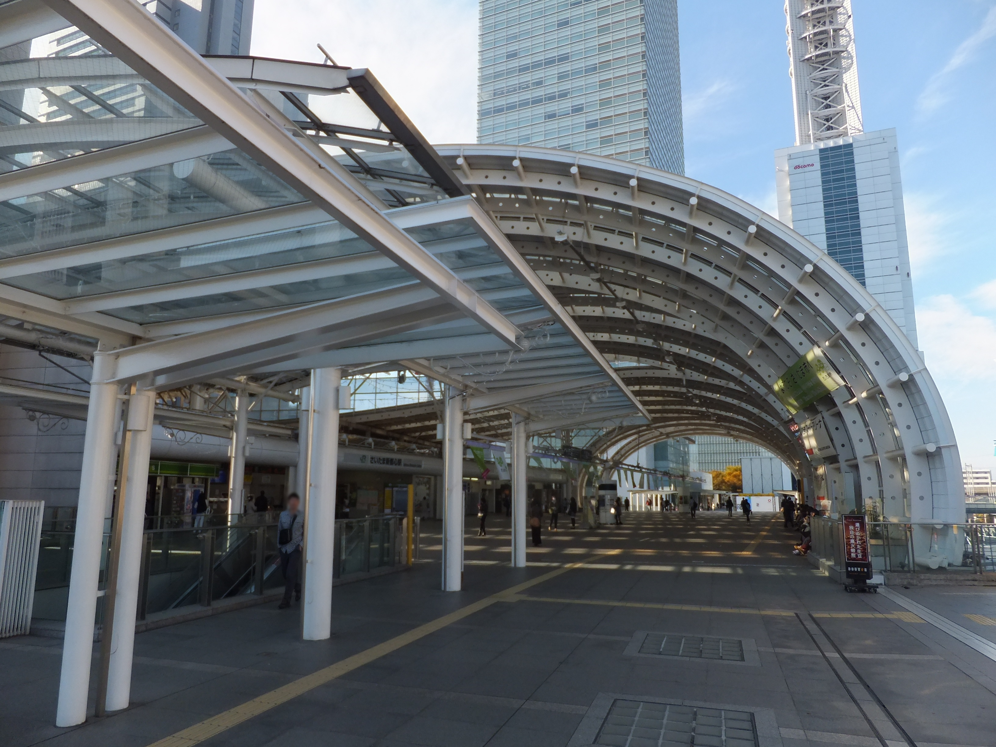 Saitama-Shintoshin Station on the Tohoku Main Line, located in the city of Saitama, Japan